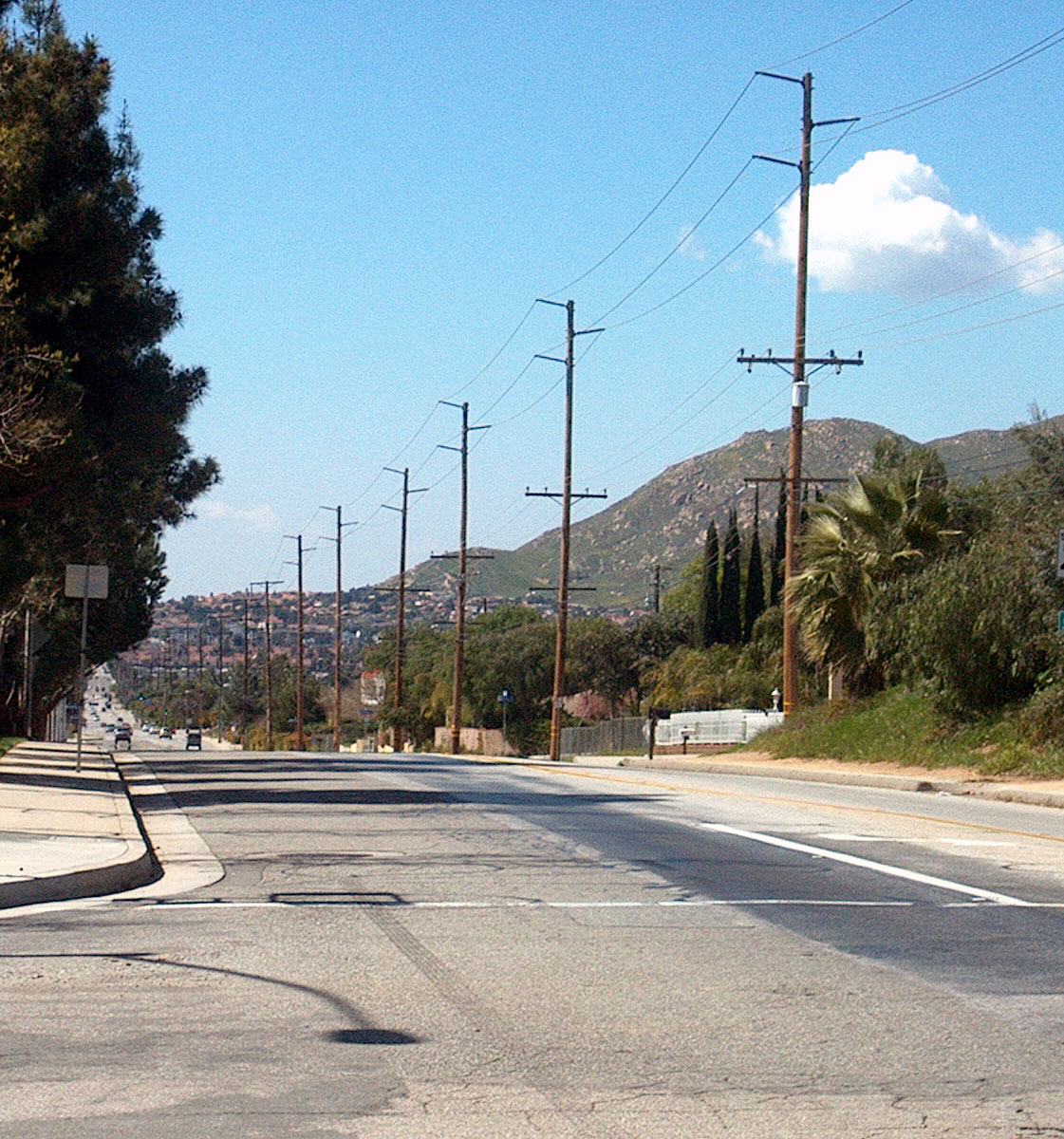 View of Moreno Valley, California looking west down Ironwood Avenue. Box Springs Mountain is visible at right. Taken by Slowking Man on Sunday, March 6, 2005.